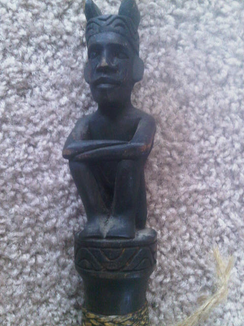 Carving of a Negrito/Filipino man found on top of a antique walking stick from the Luzon Island in the Philippines. Uniquely, the walking stick also doubles as a two fighting stick, bladed weapons when pulled apart.